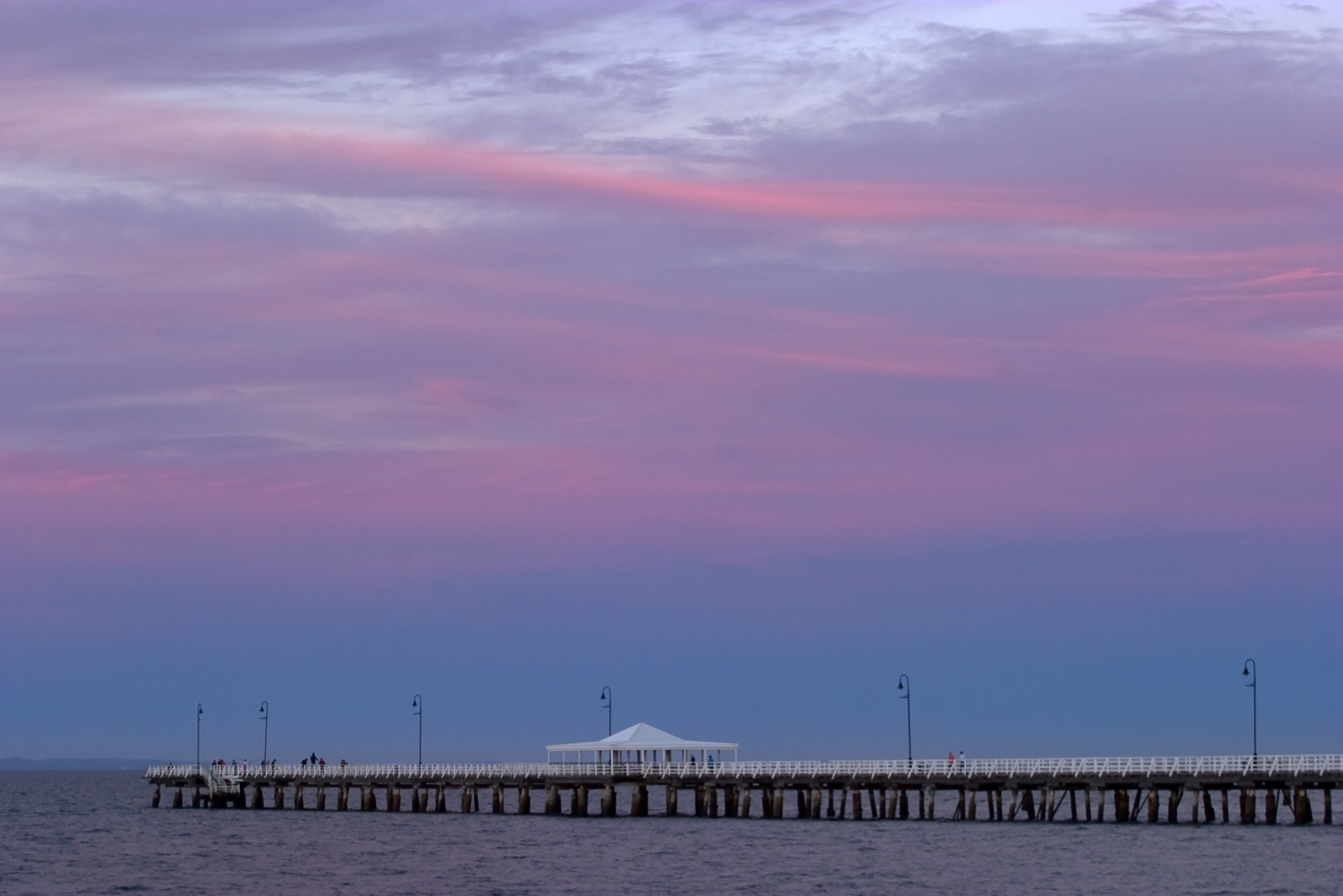 Shorncliffe Jetty at Dusk